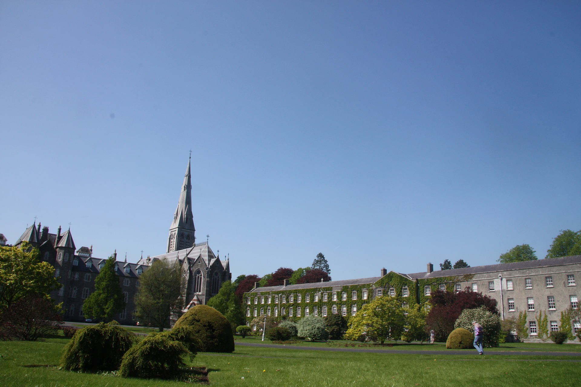 St Patrick's Chapel Maynooth